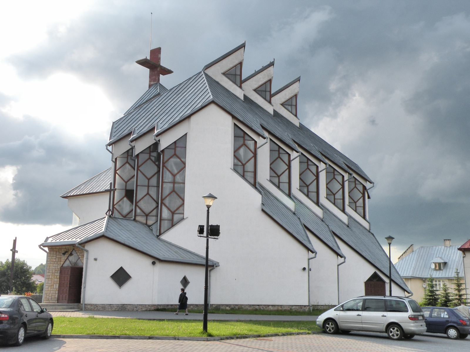 St. Honorat's church in Mrągowo, Poland